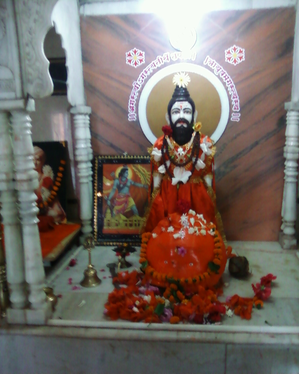 Photo of Agasti rushi at akole ashram